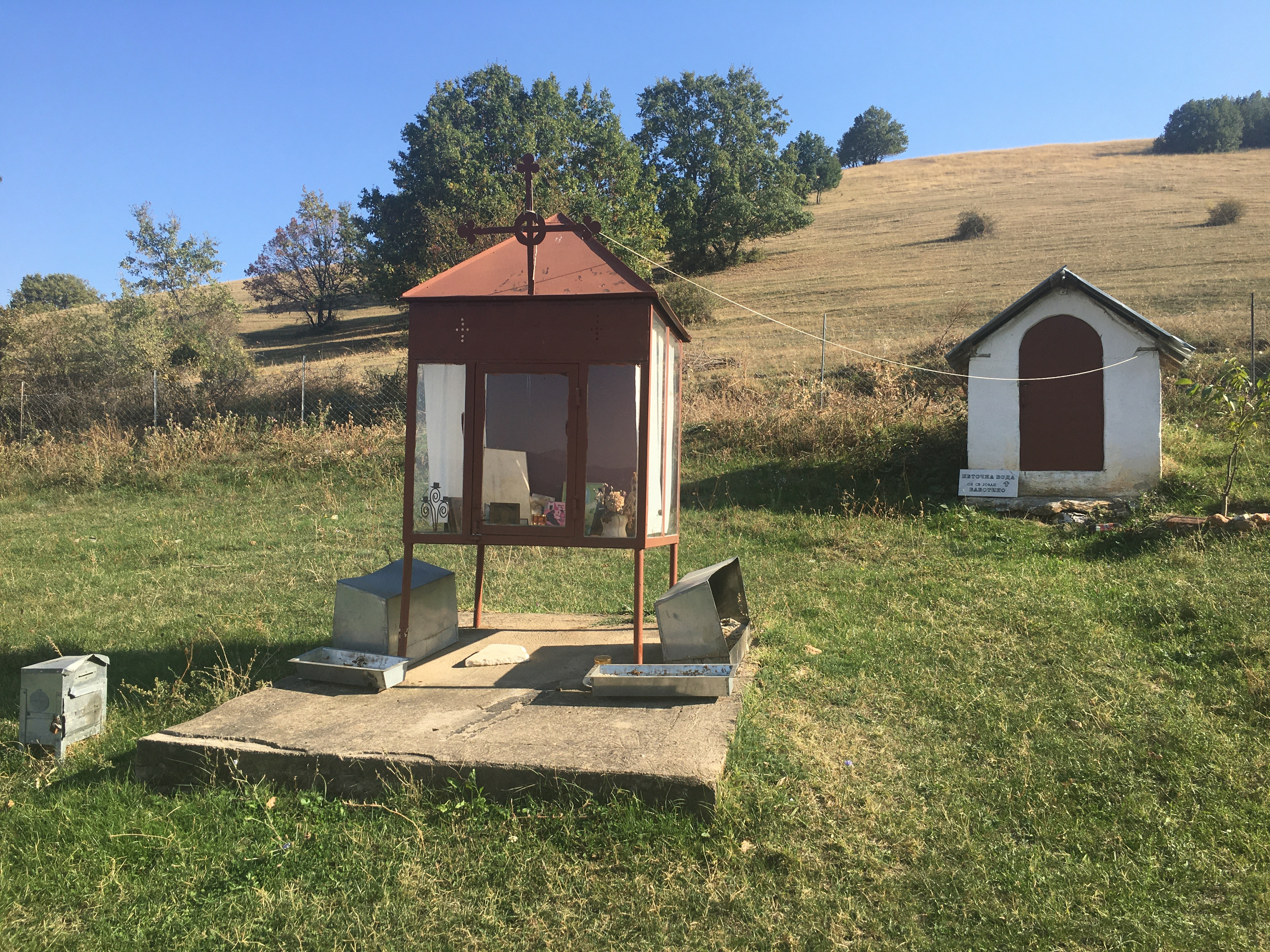 Belo Pole Monastery's yard